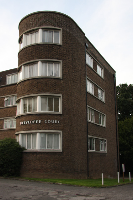 Belvedere Court. The east end of this apartment block designed by Ernst Freud. See 937418 for the west end of the building.